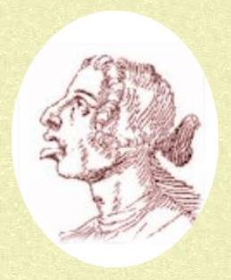 Gaetano Latilla, drawing by Pier Leone Ghezzi.